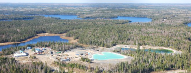 The Côté Lake gold deposit in the Canadian province Ontario.